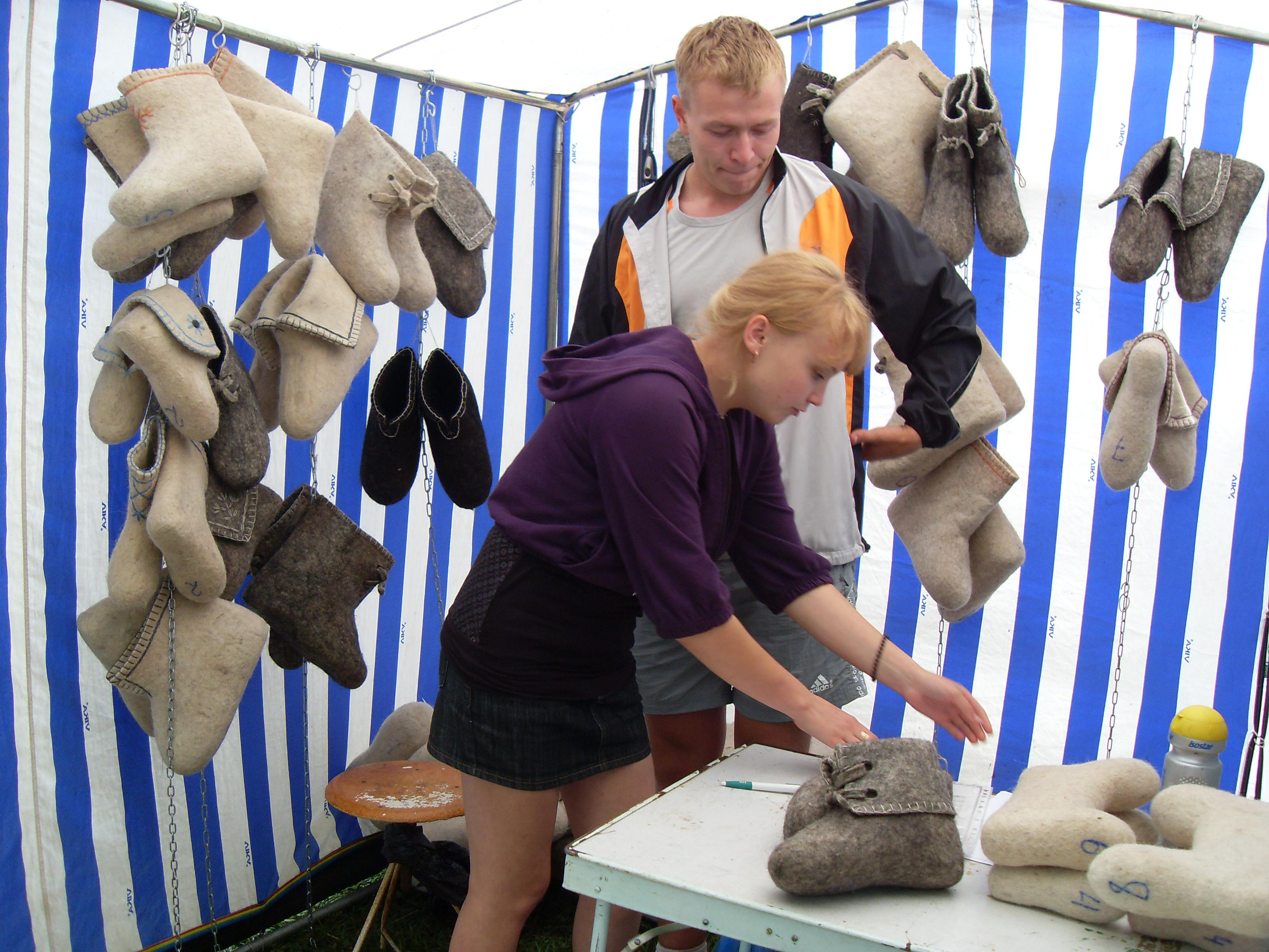 Festival Kozma Prutkov 2009